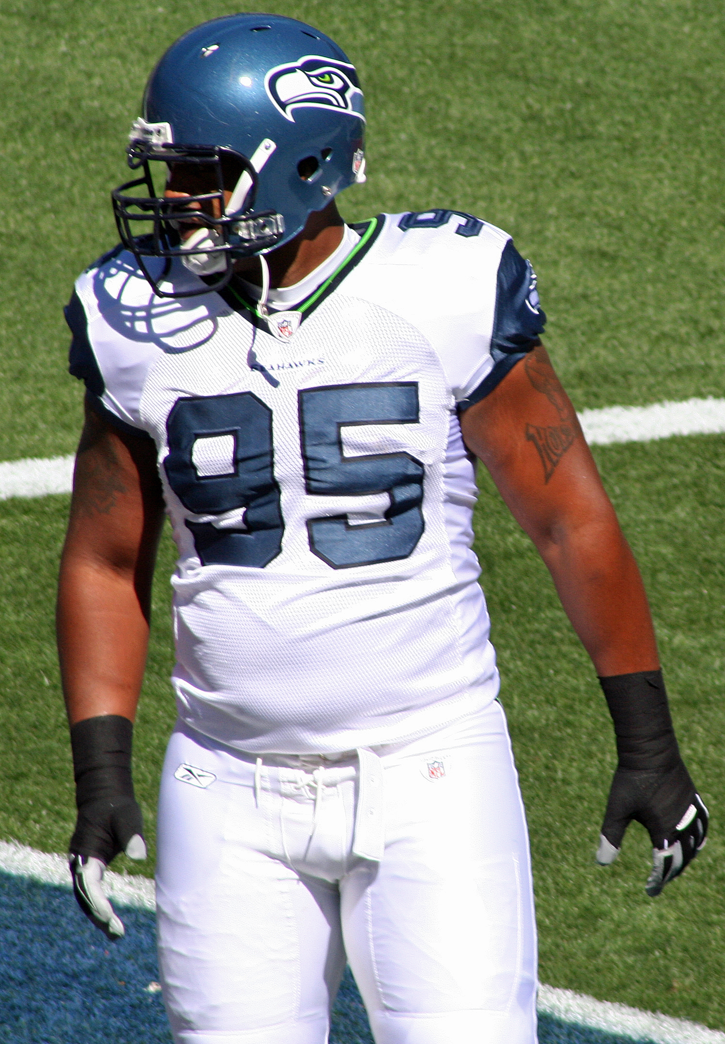 Kentwan Balmer, a player on the Seattle Seahawks American football team.